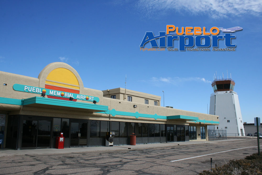 Picture of the Pueblo Airport terminal and control tower.